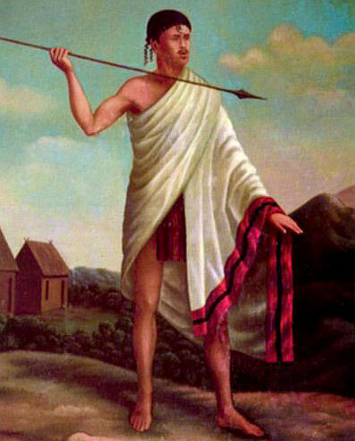 King Andrianampoinimerina of Madagascar